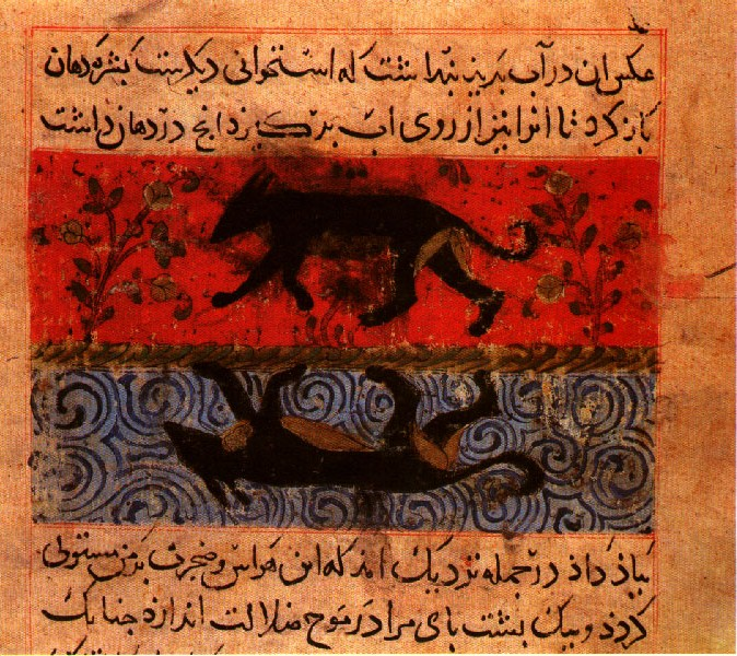 information given: The Dog and its Reflection Kalila wa Dimna. Baghdad, first half of 13th century. Hazine 363, folio 32b This is an illustration from Kalila and Dimna, sometimes called the Fables of Bidpai, in its Indian form the Panchatantra.